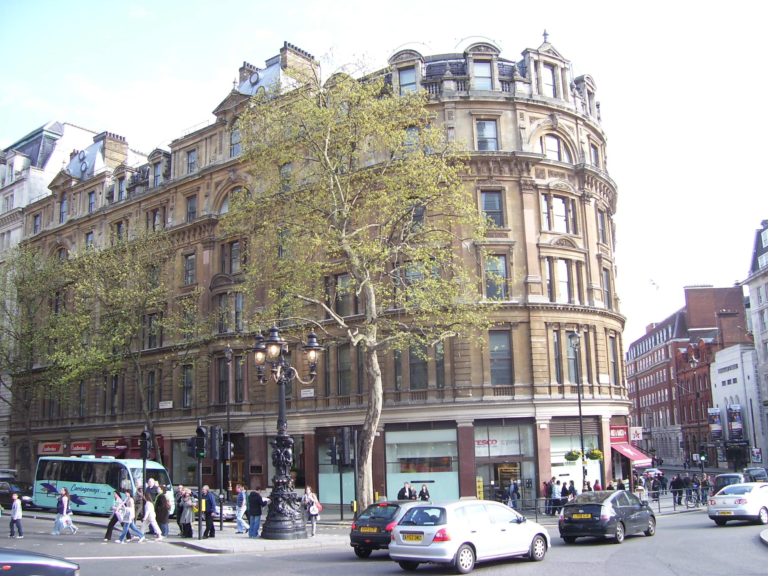 The building on the corner of Northumberland Avenue/Whitehall (facing Trafalgar Square) in which the National Liberal Club was temporarily housed 1882-7, while its building was being constructed. It later relocated here during World War I, 1916-19, when the NLC building was requisitioned for war work.